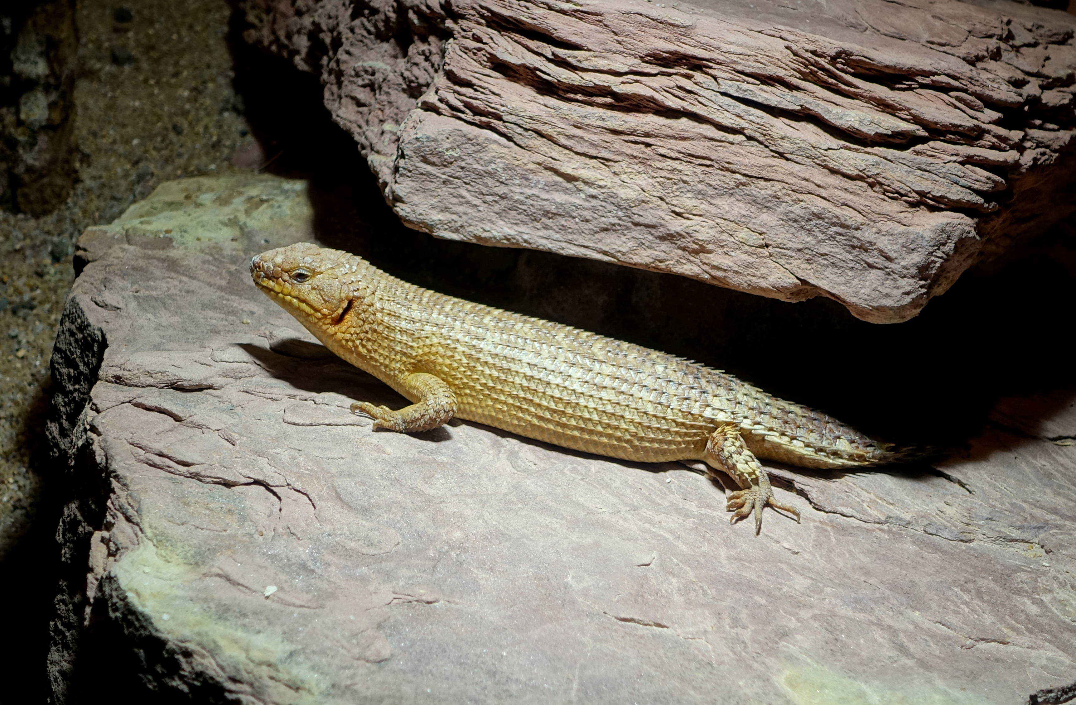 Egernia stokesii - Wilhelma Zoo - Stuttgart, Germany.